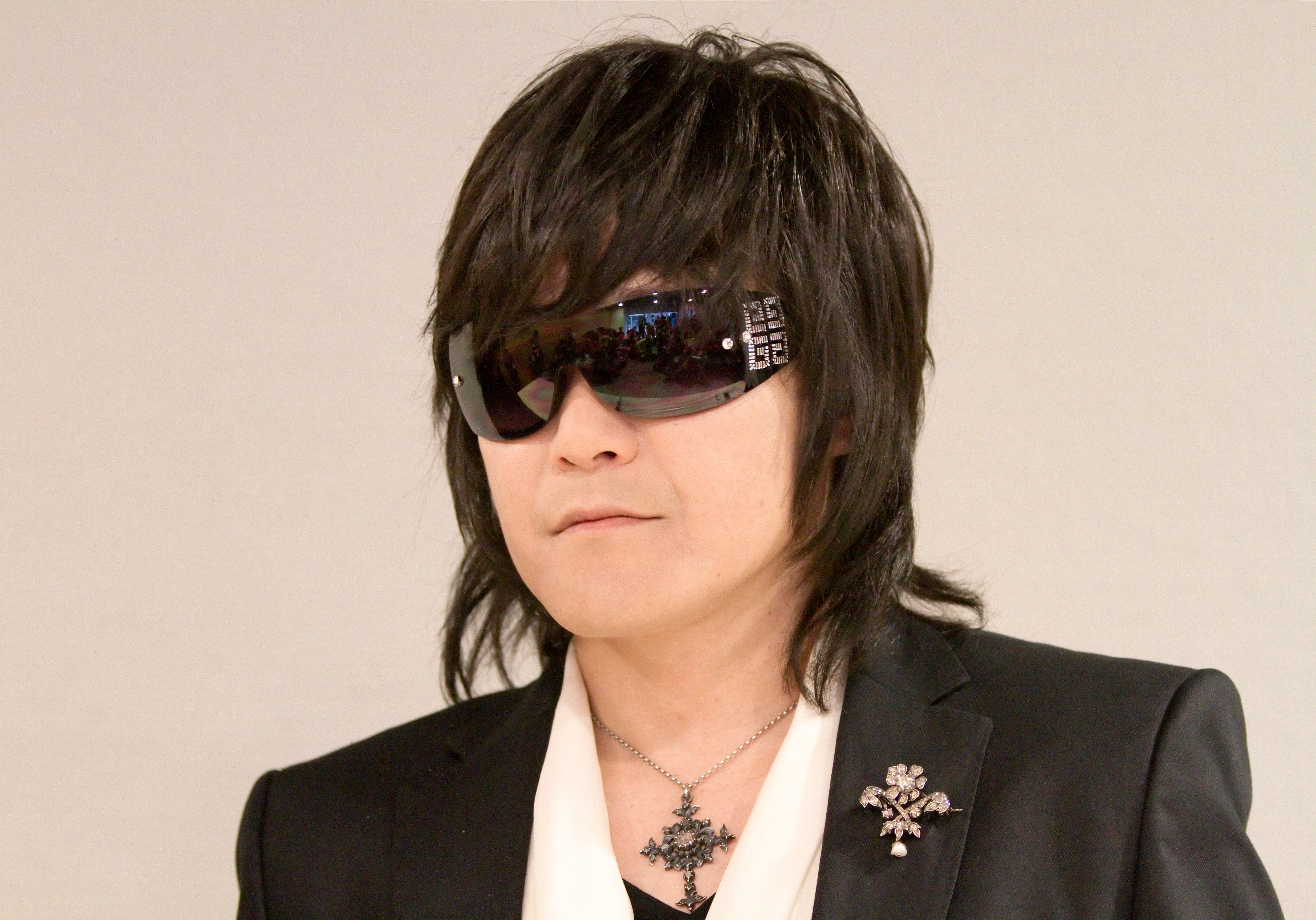 Press conference with Toshi and Yoshiki, from X Japan, at Japan Expo 2010 (Paris, France).